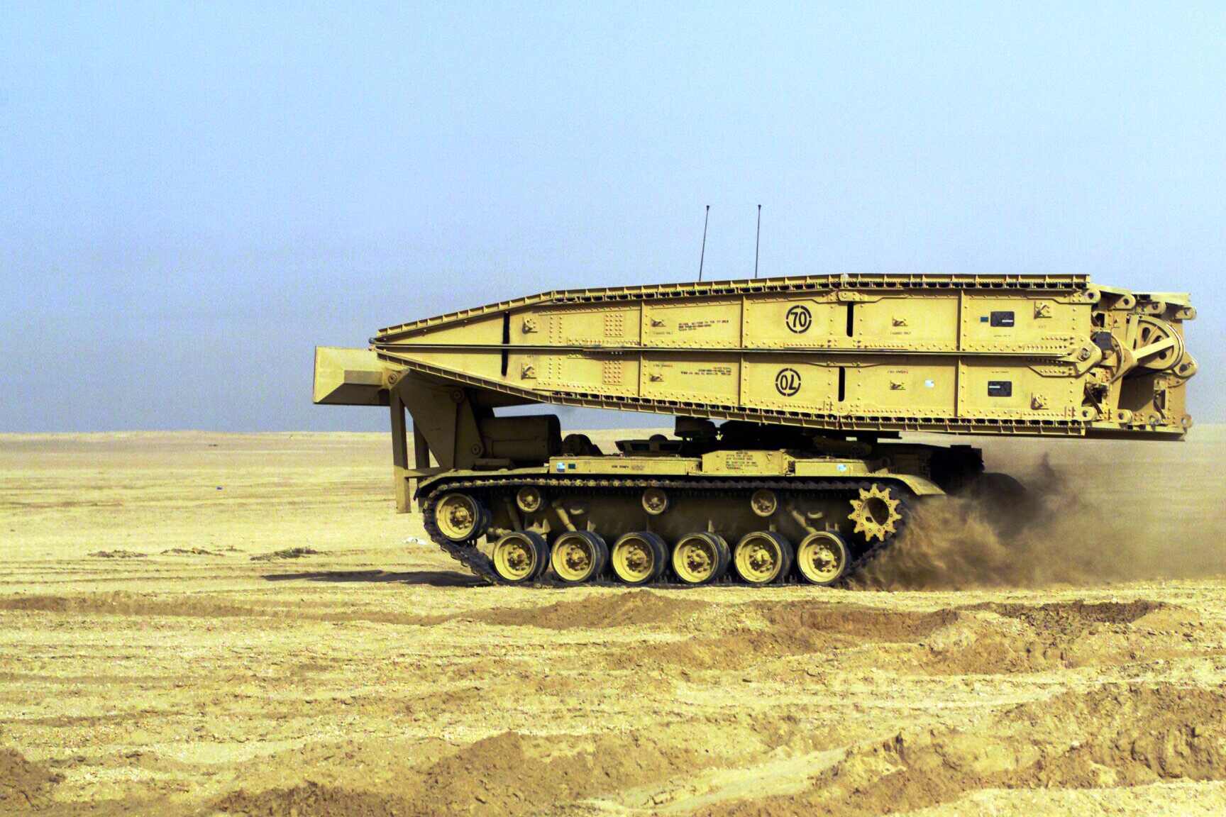 US Marine Corps (USMC) M60A1 Armored Vehicle Launched Bridge (M60A1 AVLB), 1st Tank Battalion, Twentynine Palms, California, moves across the Kuwaiti desert enroute to bridge launching training at Camp Coyote, Kuwait during Operation ENDURING FREEDOM.